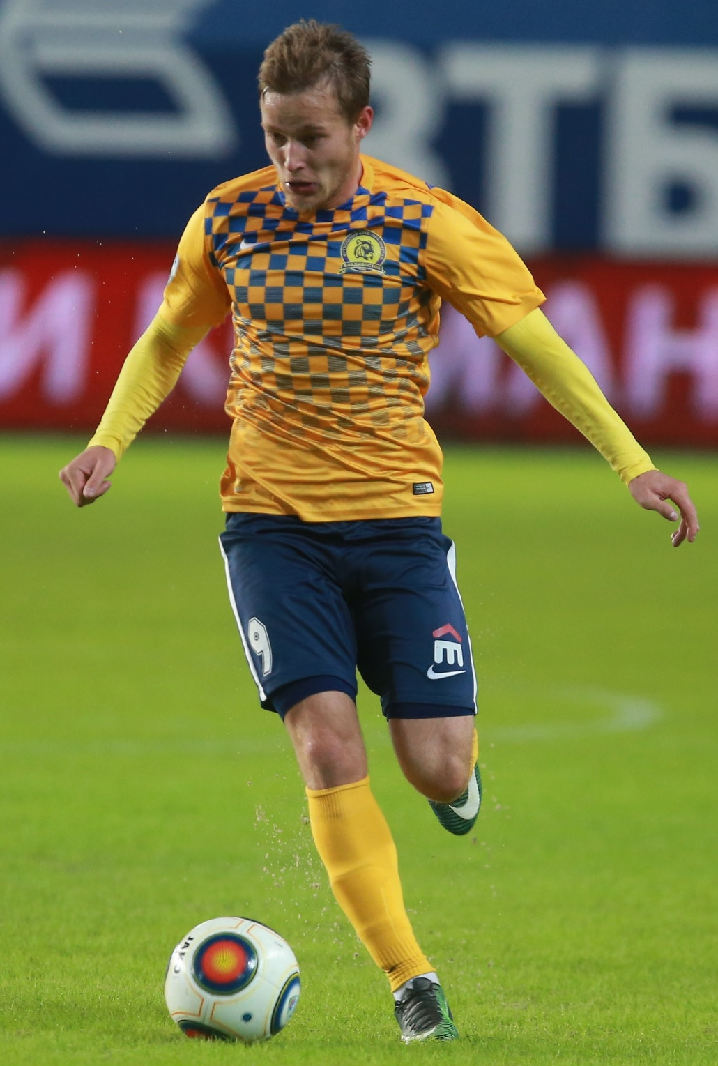 Ruslan Gordiyenko with FC Luch-Energiya Vladivostok in a game against FC Dynamo Moscow.